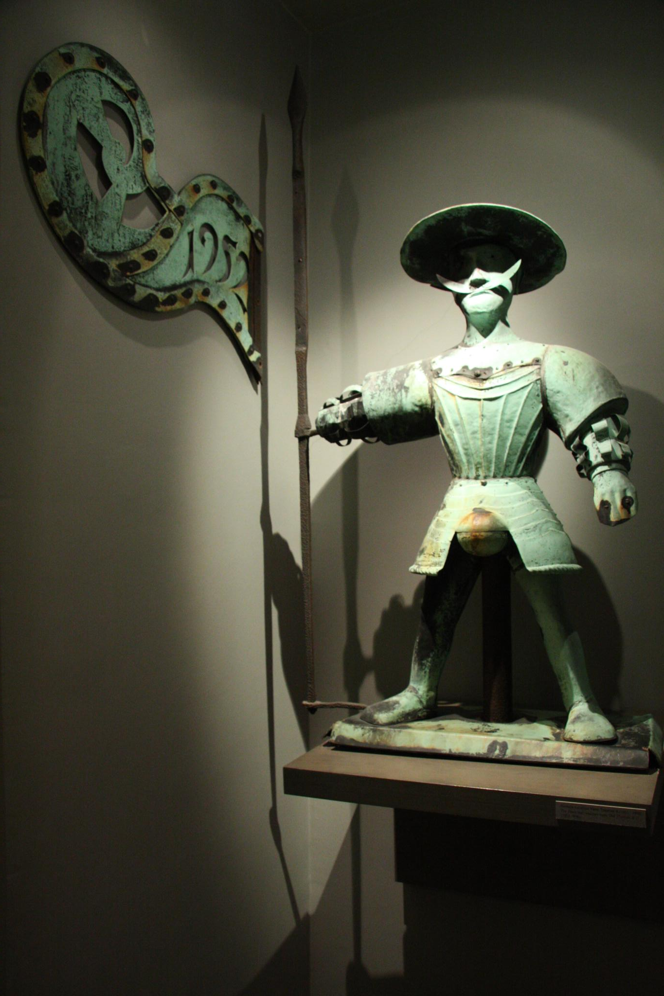 An earlier version of the Old Thomas (Vana Toomas) weather vane from the town hall spire in the (well worth a visit) Tallinn City Museum